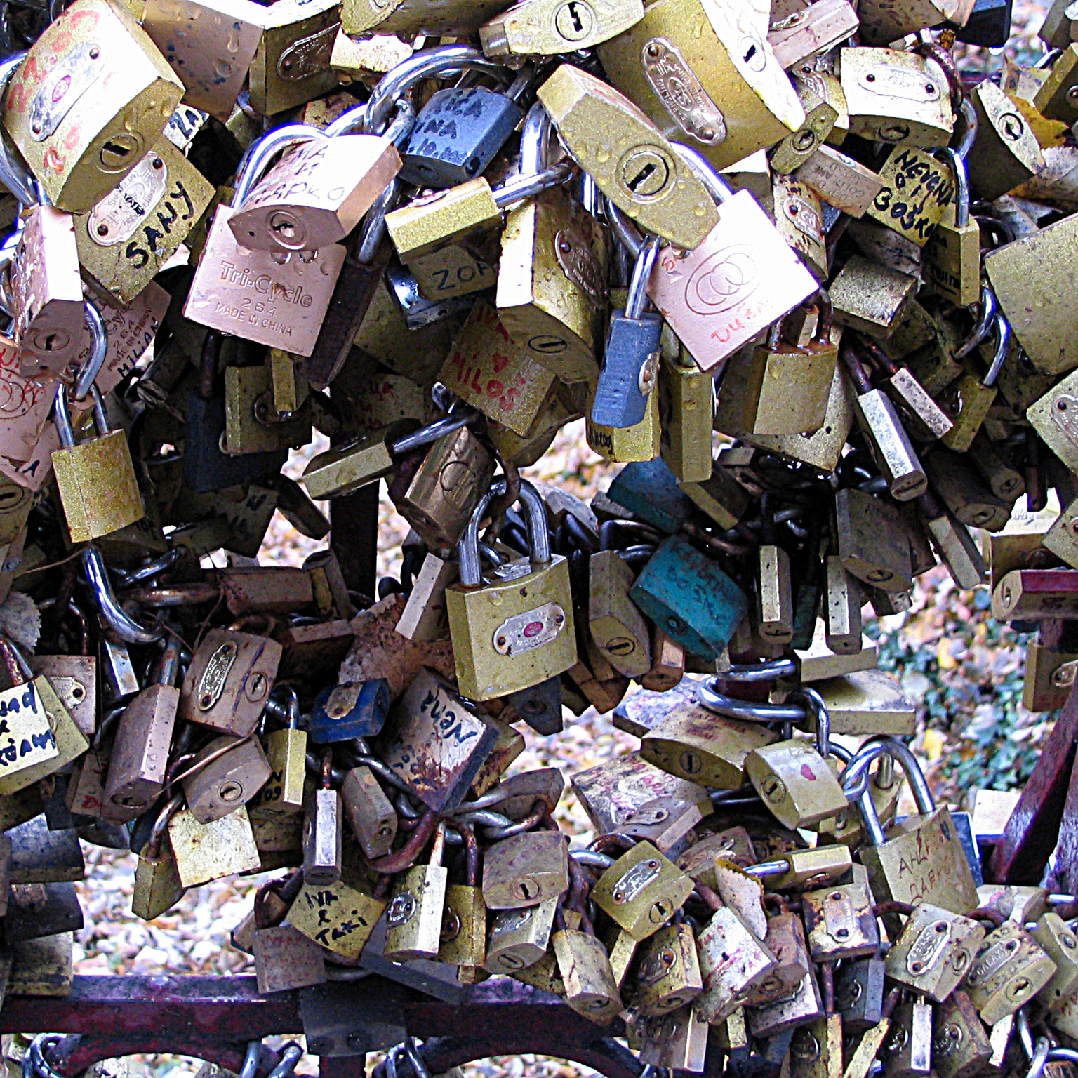 Padlocks on the Bridge of Love in Vrnjačka banja, Serbia